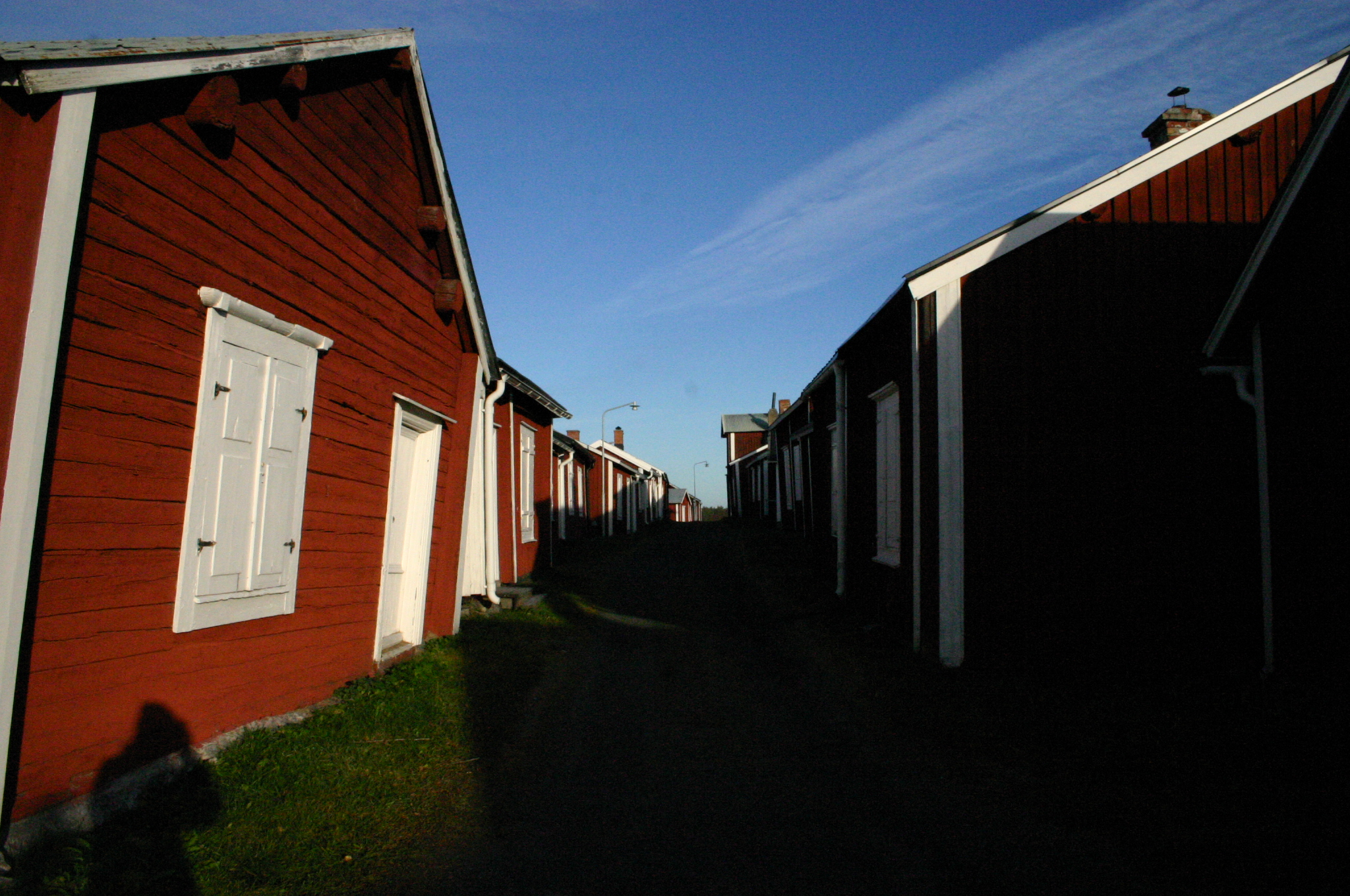 Description: Gammelstad Church Town (Gammelstad,Sweden) source: created on 18.10.2005 by Stephan Herz with Canon EOS 300D